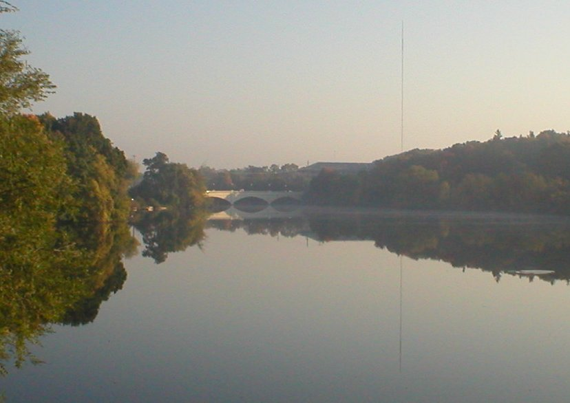 Photograph of the Otonabee River in Peterborough, Ontario.